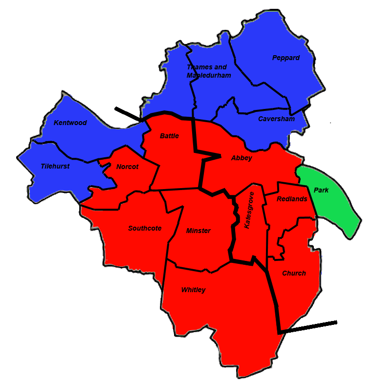 Graphic illustrating the electoral make-up of Reading Borough Council after the 2011 Local Election.